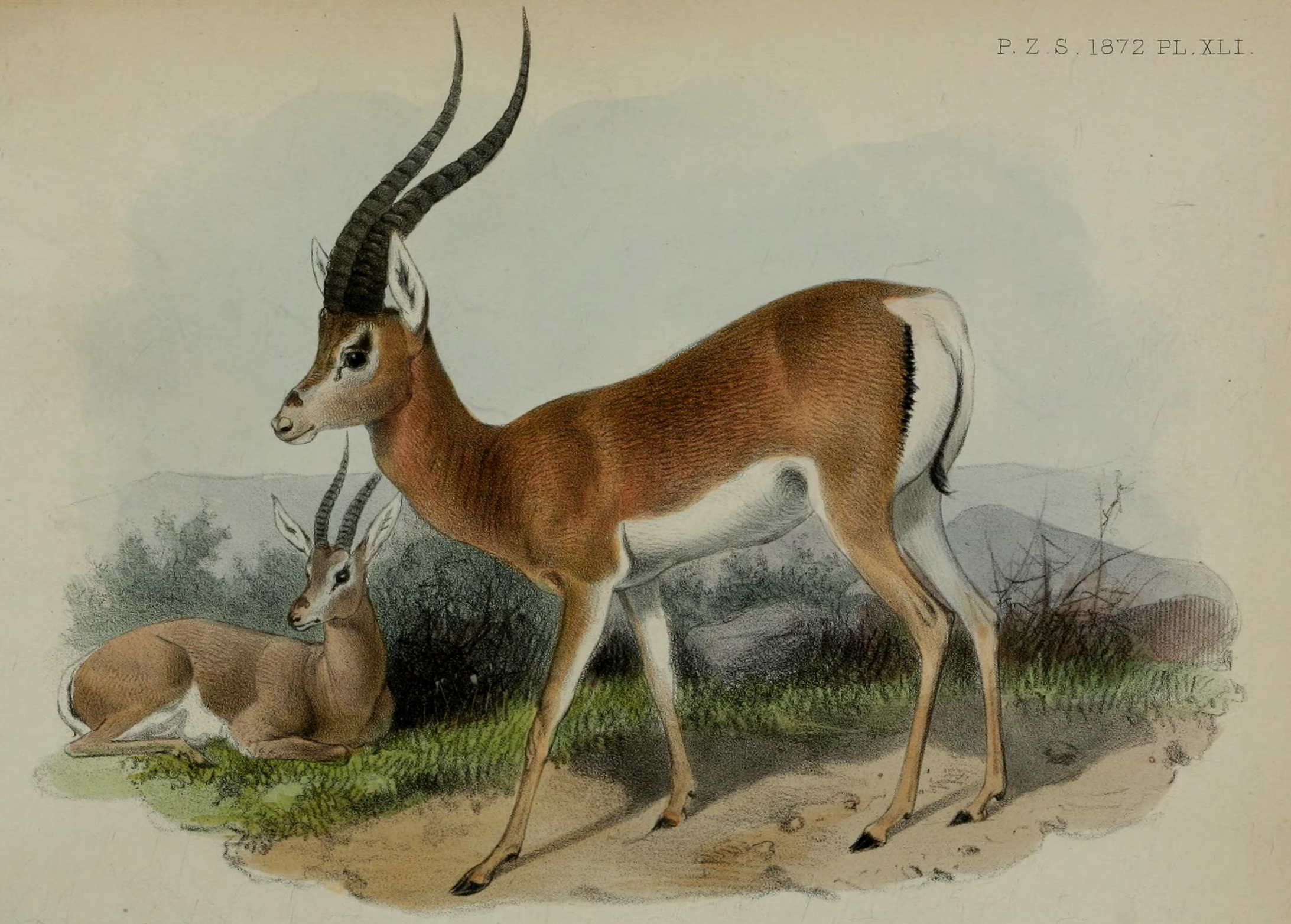 drawing of Nanger granti from the species description by Victor Brooke 1872